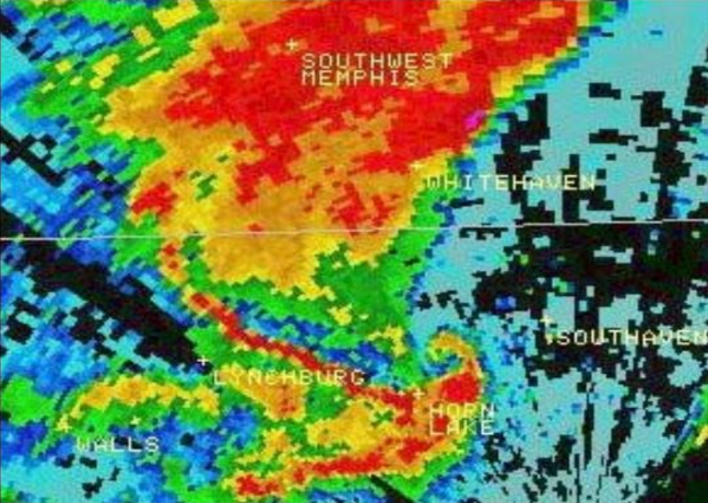 Doppler radar scan of the supercell that produced the Southaven/Memphis tornado.